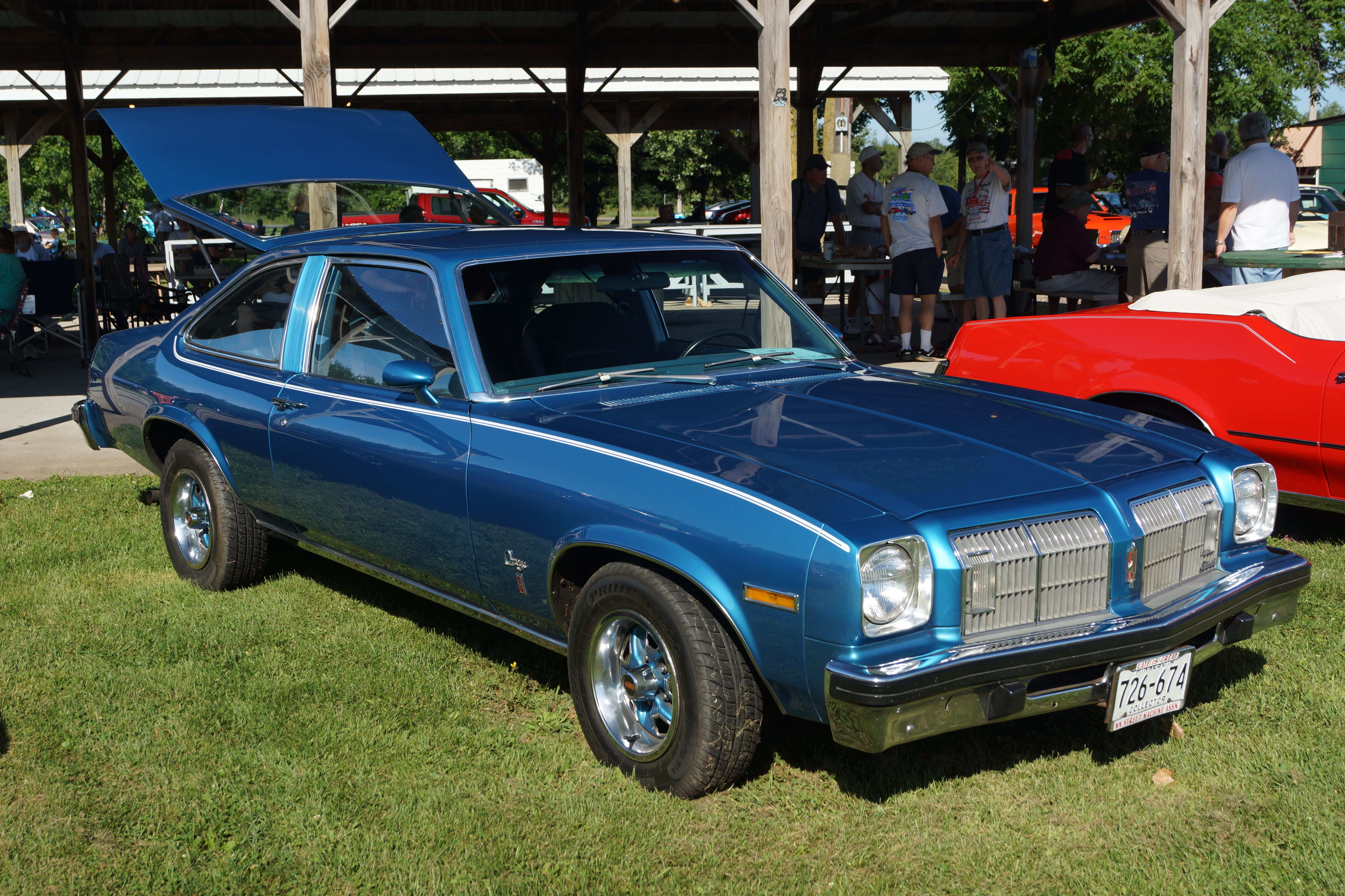 Minnesota Olds Club 40th Oldsmobile State Show & Swap meet Blacksmith Lounge Hugo, Minnesota August 2016 Click here for more car pictures at my Flickr site.